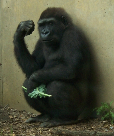 Western Lowland Gorilla